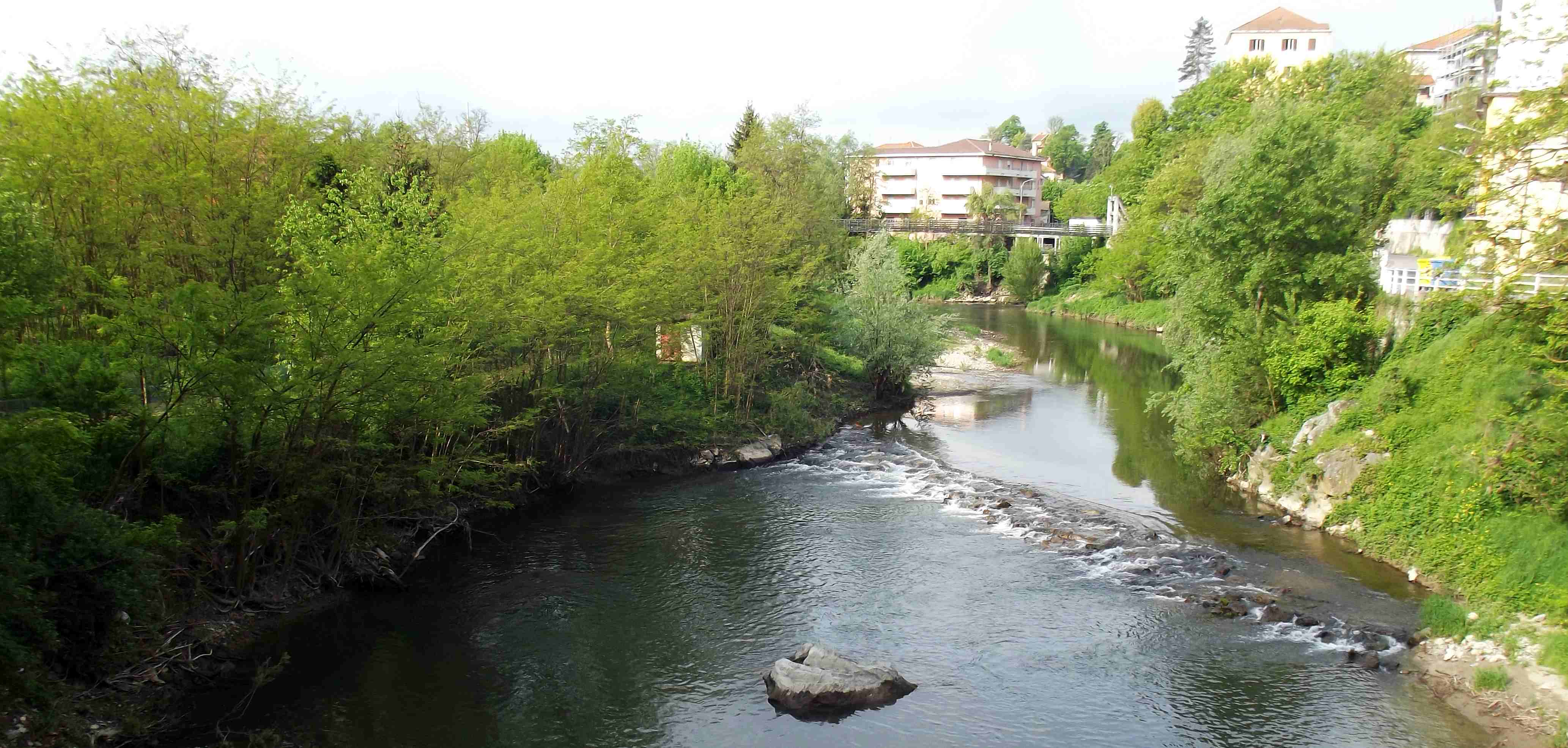 The Bormida di Spigno at Dego (SV, Italy)